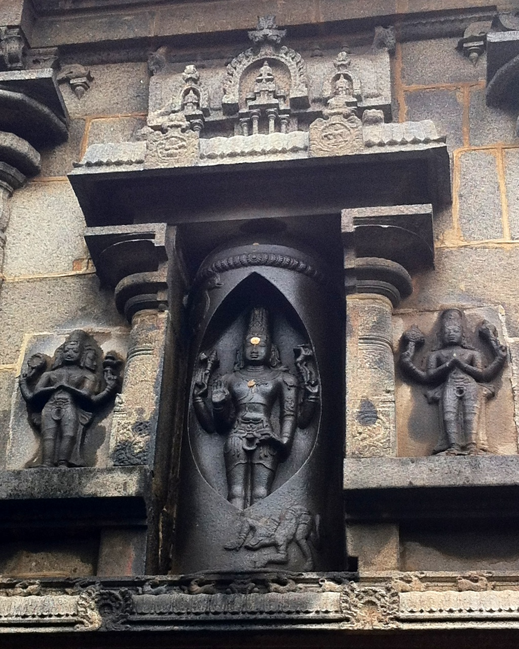 A sculpture depicting Lord Shiva as Lingothbavar. Brahma and Vishnu are on the top and bottom respectively. Brahma as a bird is seen racing towards Shiva's top most part and Vishnu in boar avatar, racing to find the base of his feet, in a competition to prove who is great between the two.